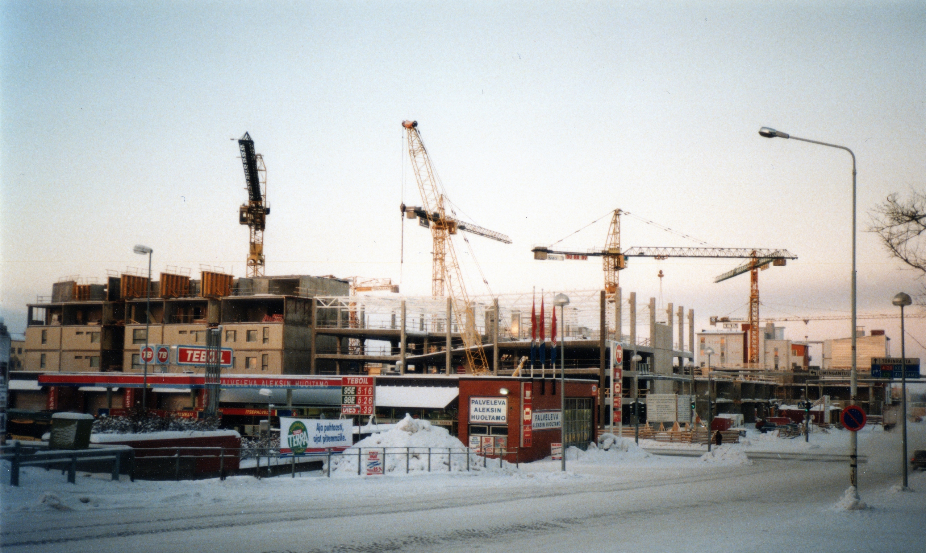 Meritulli neighbourhood under construction in January or February 1999 in Oulu. Teboil petrol station in the foreground has been demolished after the photo was taken.